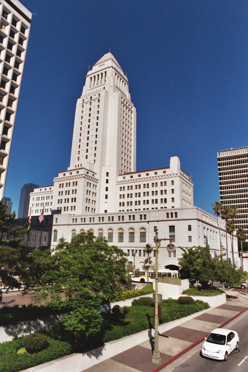 Los Angeles City Hall.